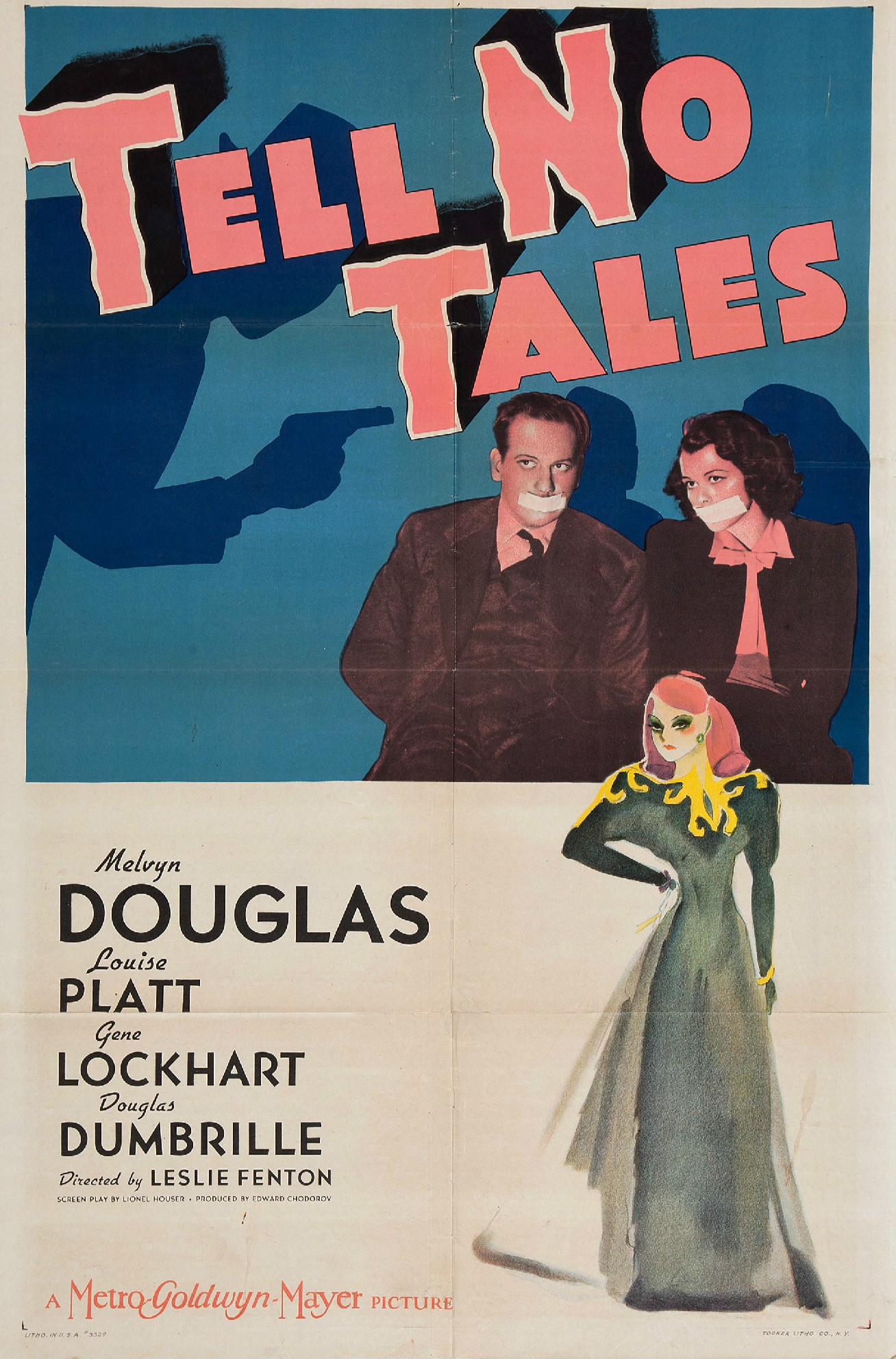 Poster for the 1939 film Tell No Tales. There are no copyright marks. At bottom left is Litho in USA #3329. At bottom right is Tooker Litho Co., NY.